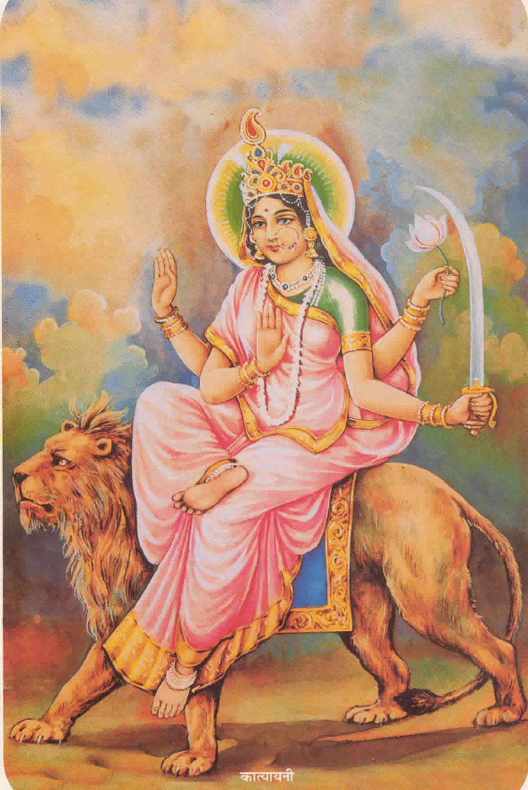 Katyayani Navadurga Maata